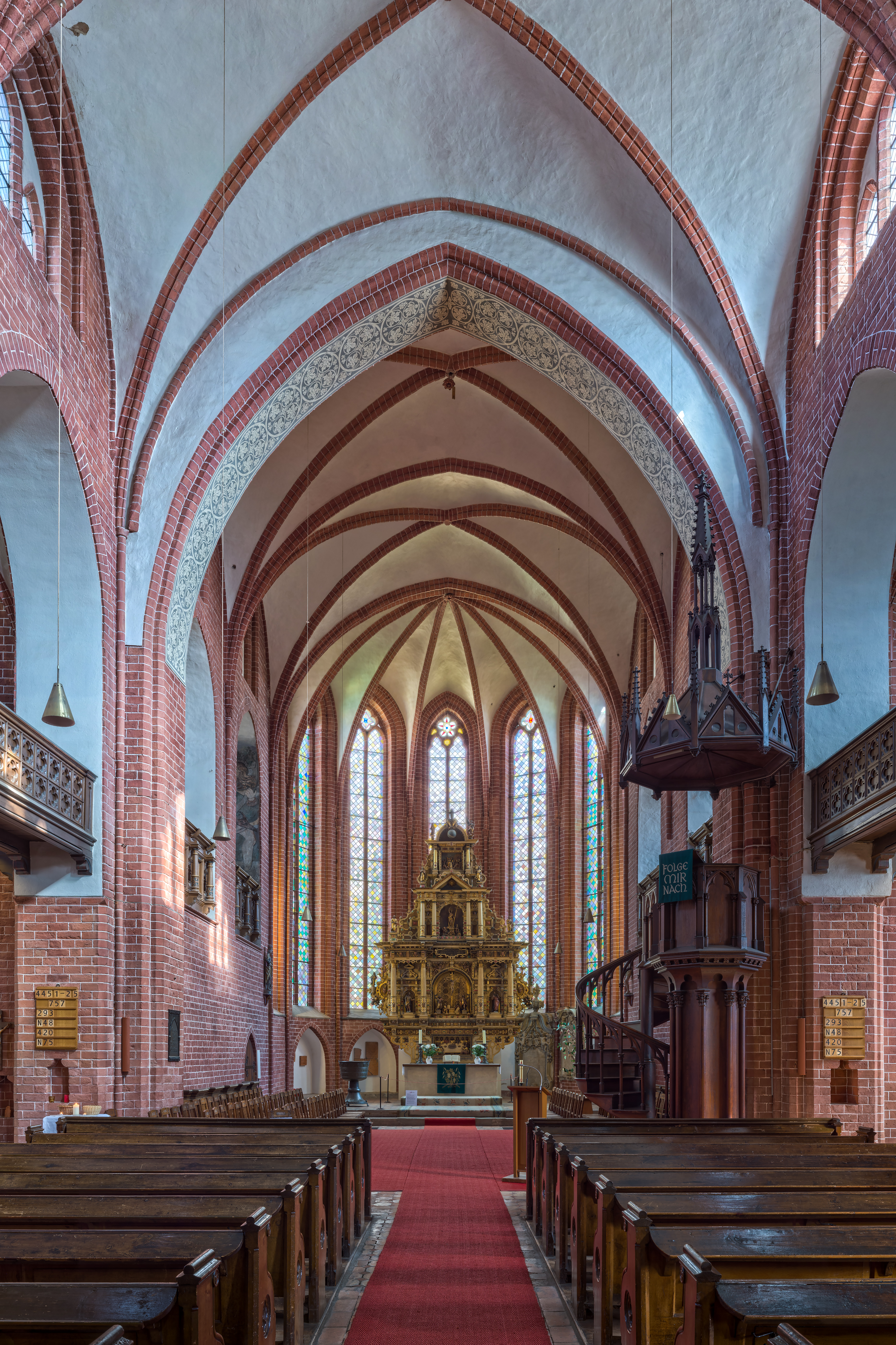 Interior view of the Maria-Magdalenen-Kirche (Eberswalde).